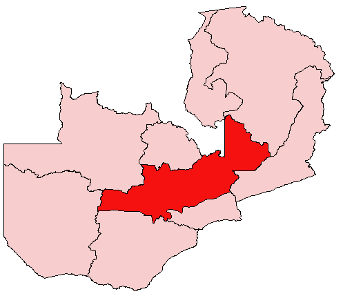 Map of Zambia showing Central Province; created with the GIMP. Made by User:Acntx.